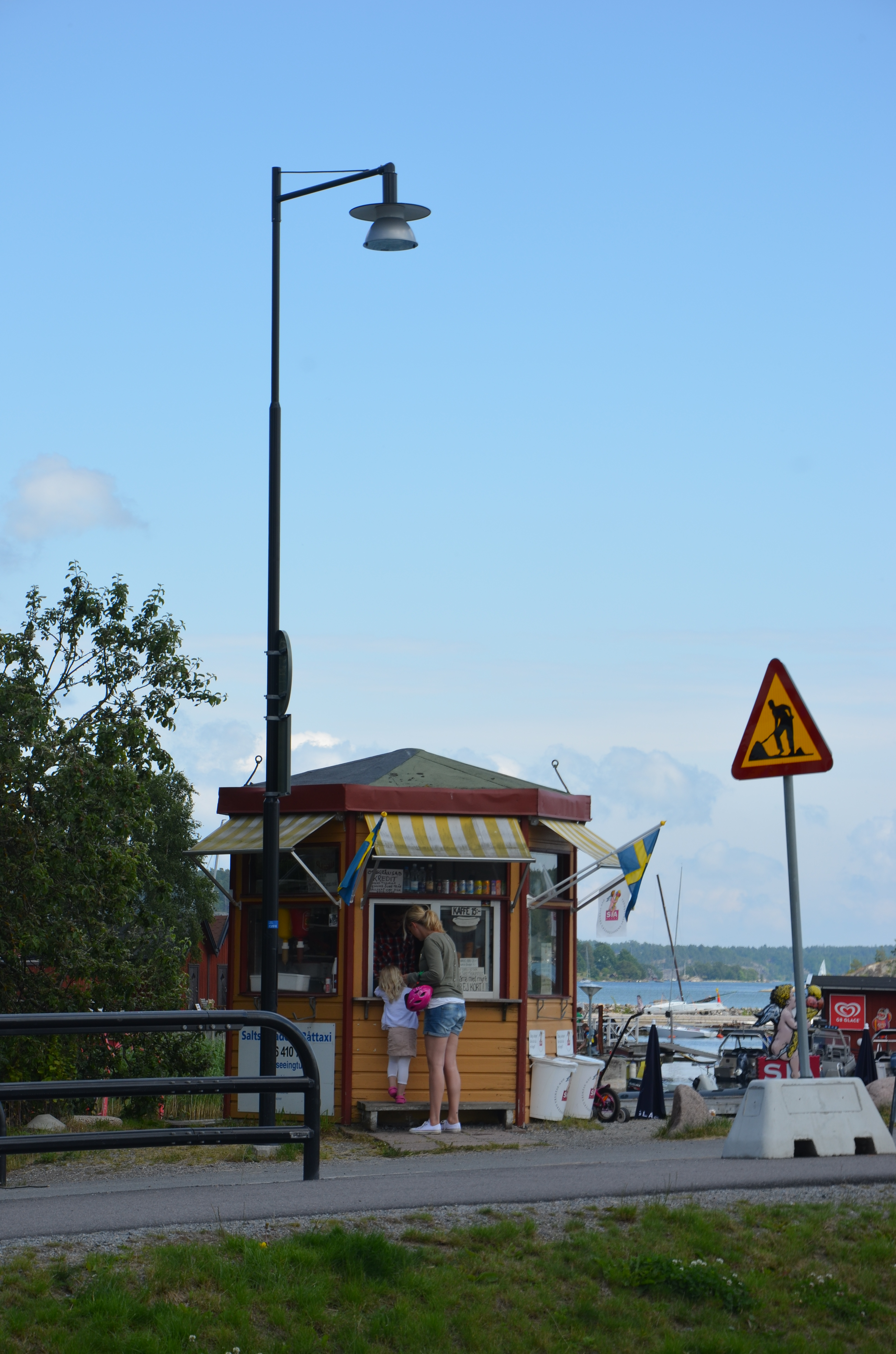 Korv- och glasskiosk vi bron till Badholmedn i Saltsjöbaden